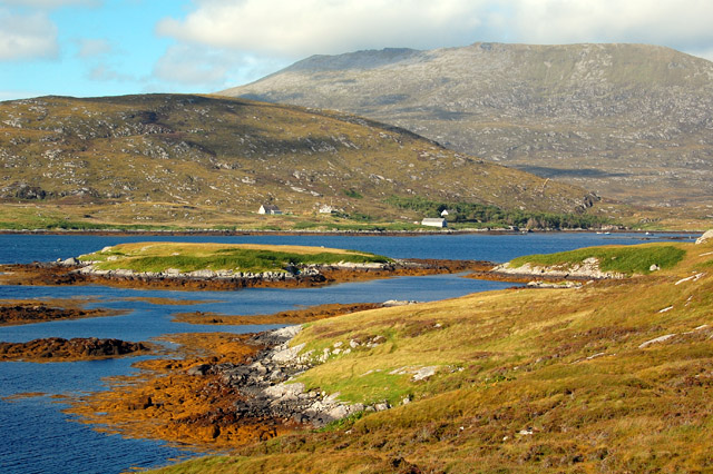 Loch Aineort Small island Eilean Mhic Eachain, in Loch Aineort on the east side of South Uist. The big ridge in the background is Beinn Mhor.